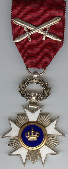 Knight of the Crown Order (Belgium)